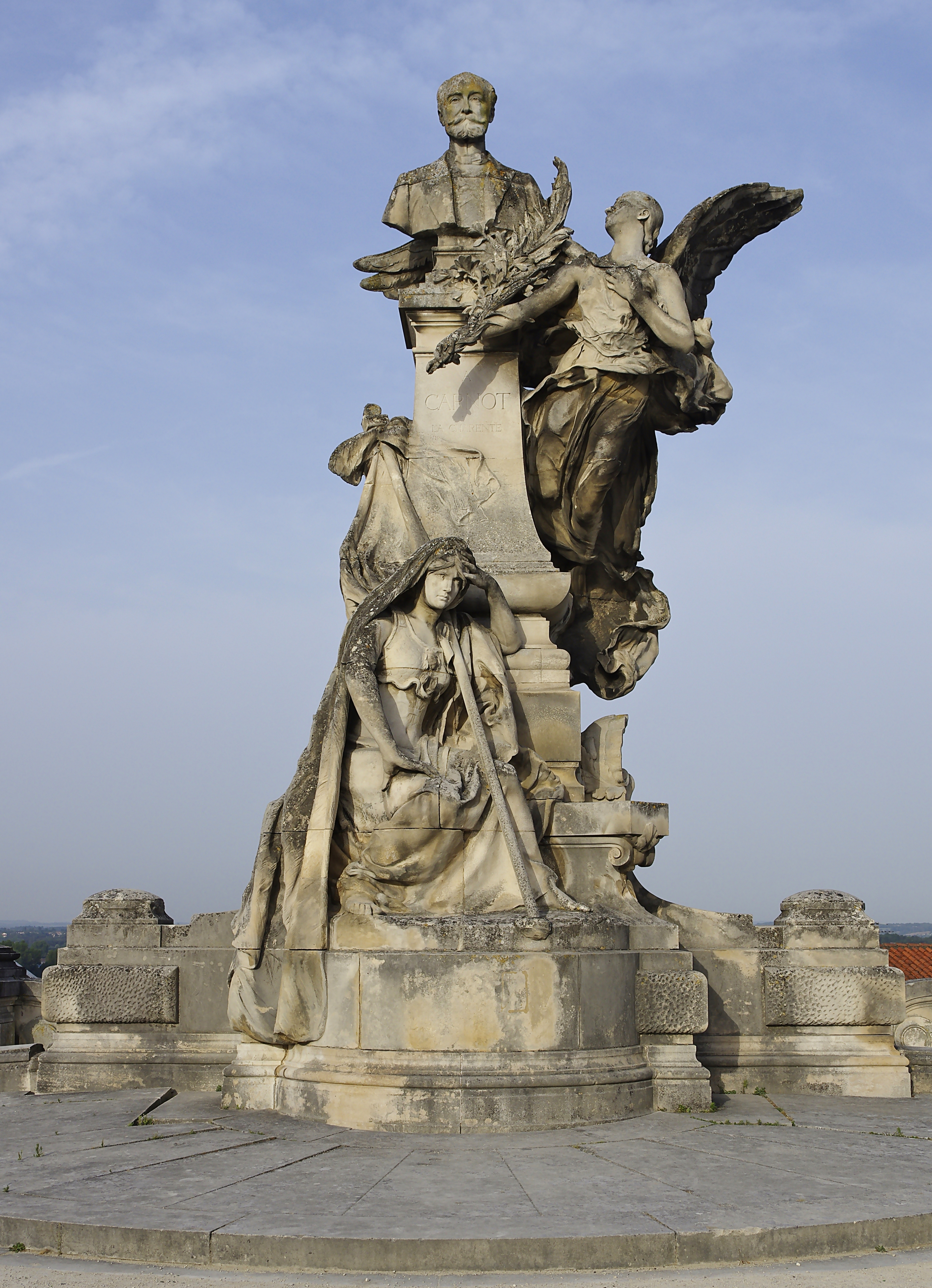 Monumental statue (1897), by Raoul Verlet, tribute to assassinated president Sadi Carnot, Angoulême, Charente, France.